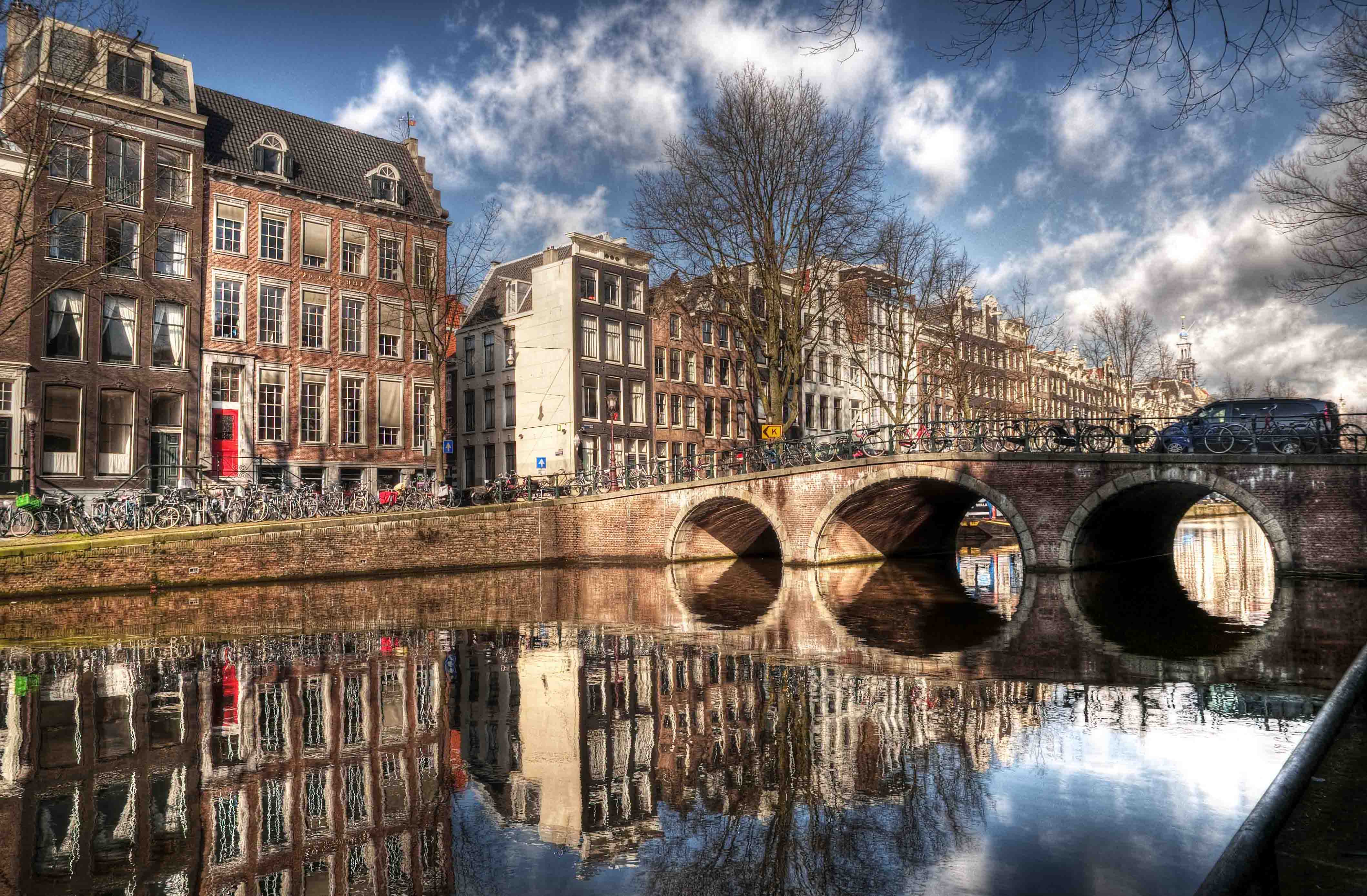 Amsterdam, Keizersgracht This is an image of rijksmonument number 2568 This is an image of rijksmonument number 2569 This is an image of rijksmonument number 2570 This is an image of rijksmonument number 2571 This is an image of rijksmonument number 2572 This is an image of rijksmonument number 2573